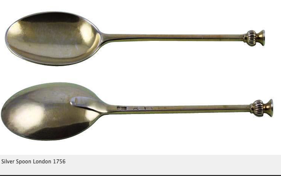 1756 Antique Solid Silver Large Seal Top Spoon with gold gilded finish London 1756. The bowl is lightly hand planished with a single drop from the terminal. Made 250 years ago by the very important London silversmith Ebenezer Coker